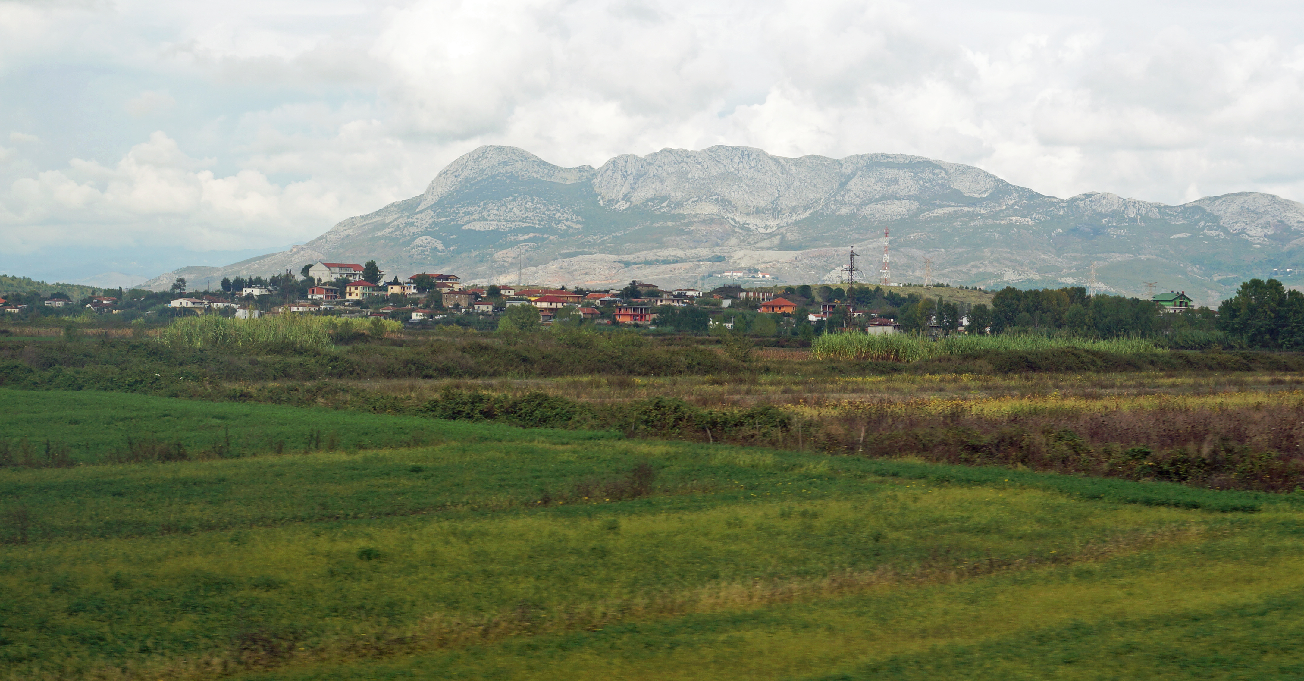 Village of Blinisht, Zadrima, Northern Albania – Mountain Mali i Shitës in the backgrond